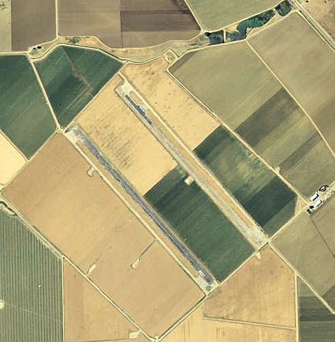 USGS digital orthophoto of New Jerusalem Airport in California